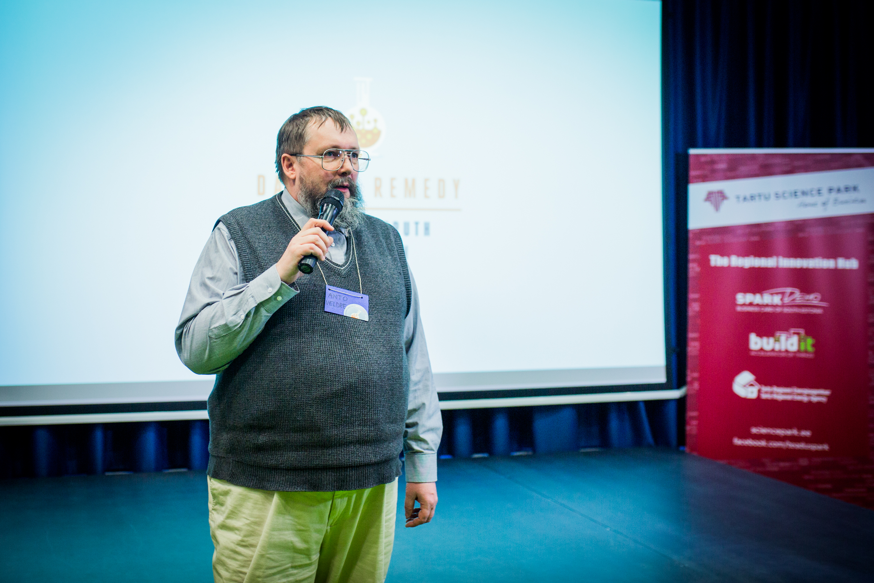 Data as Remedy 24h Post-Truth hackathon in Tartu, Estonia